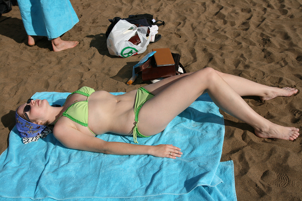 Dangerous sunbathing.